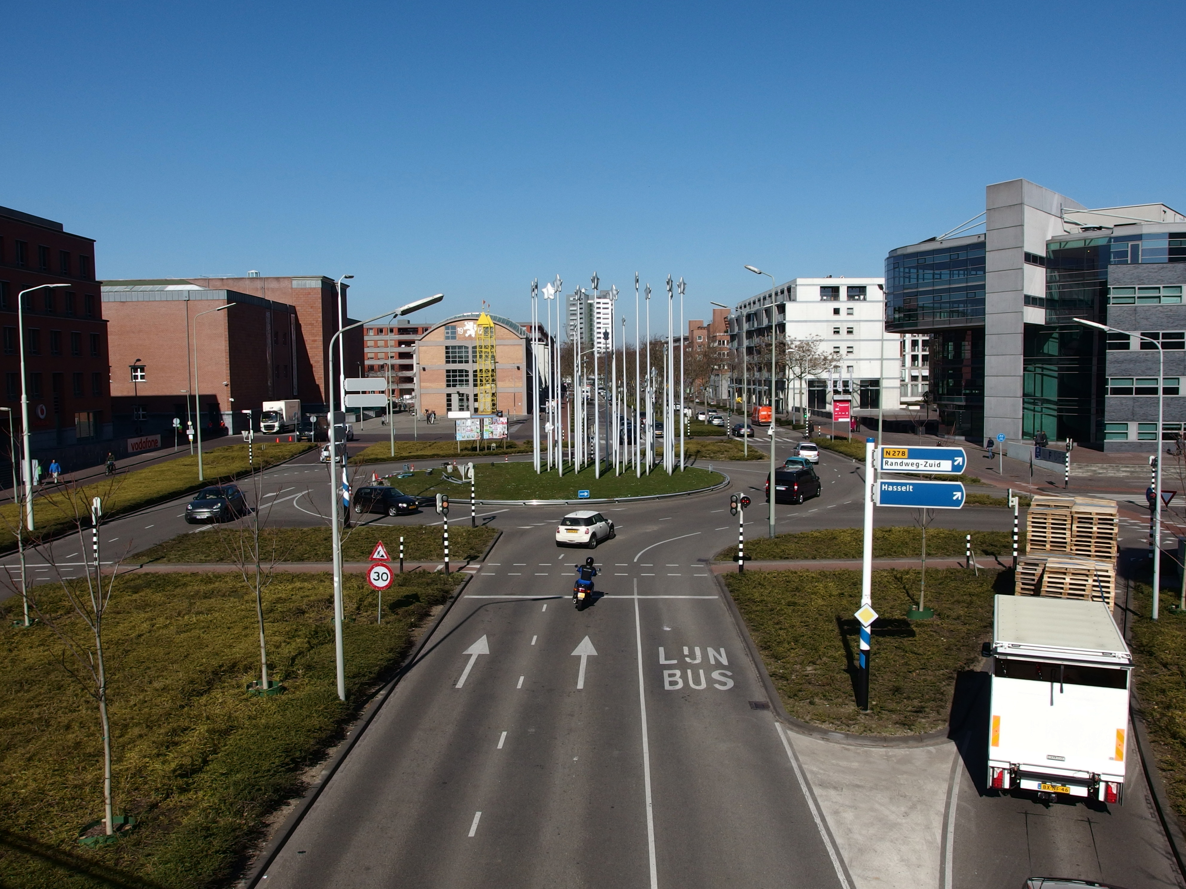 2015-03-12 Maastricht; Avenue Céramique seen from Kennedybrug.